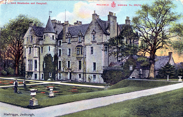 Hartrigge House in Jedburgh with guys mowing lawn - Reiable postcards were for WR&S Ltd, Edinburgh. This company existed in the early 20th century. The building was demolished c. 1951 but this picture is well before then.Ive guessed the date as 1920, but if it was 30 years later it would still be PD as the photographer is unknowm.